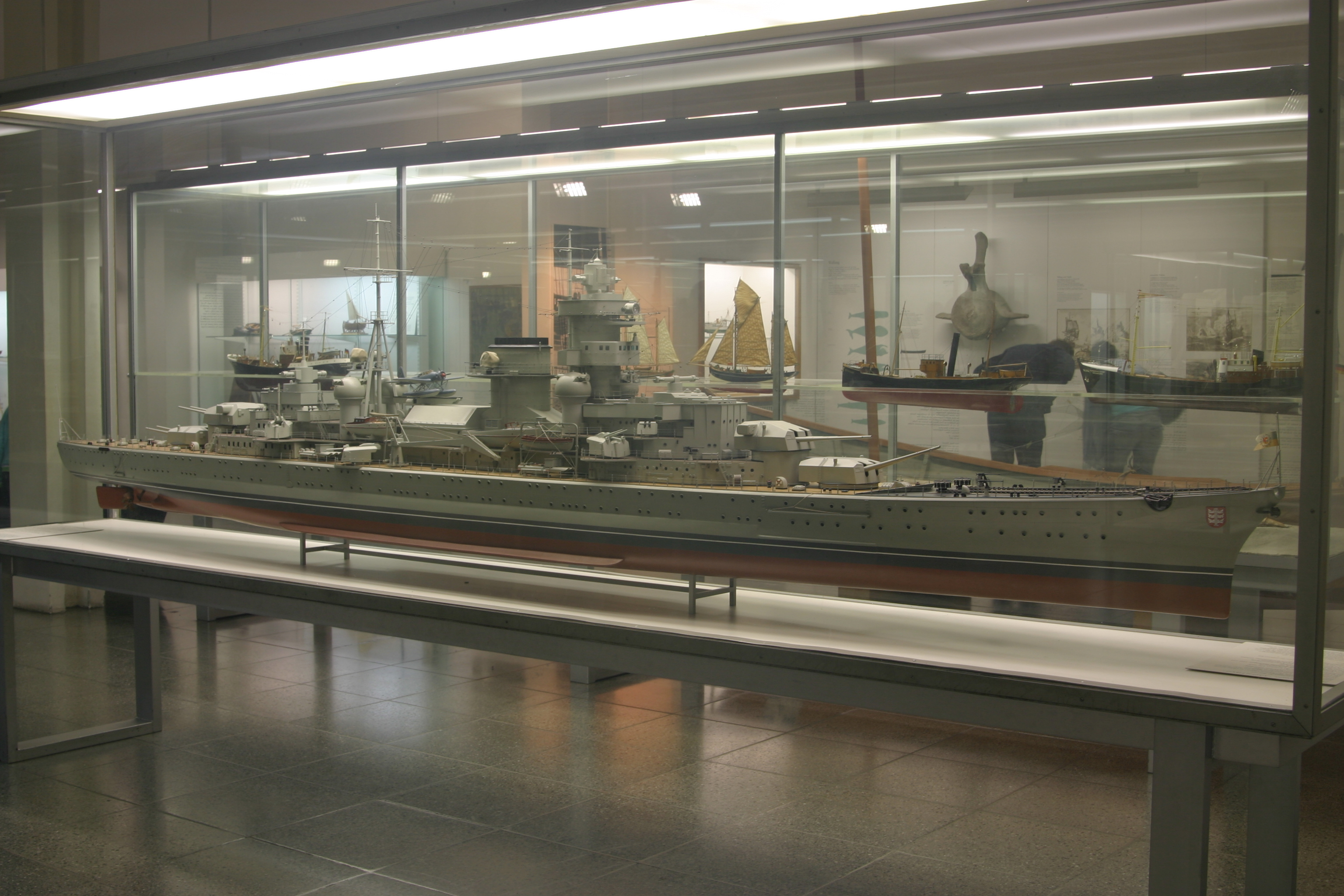 Model of Admiral Hipper